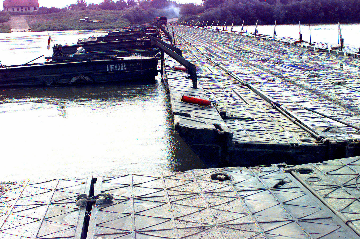 Hungarian Army IFOR Pontoon Company assembling a steel PMP Folding Float Bridge across the Sava River at Slavonski Brod, Croatia, 1996